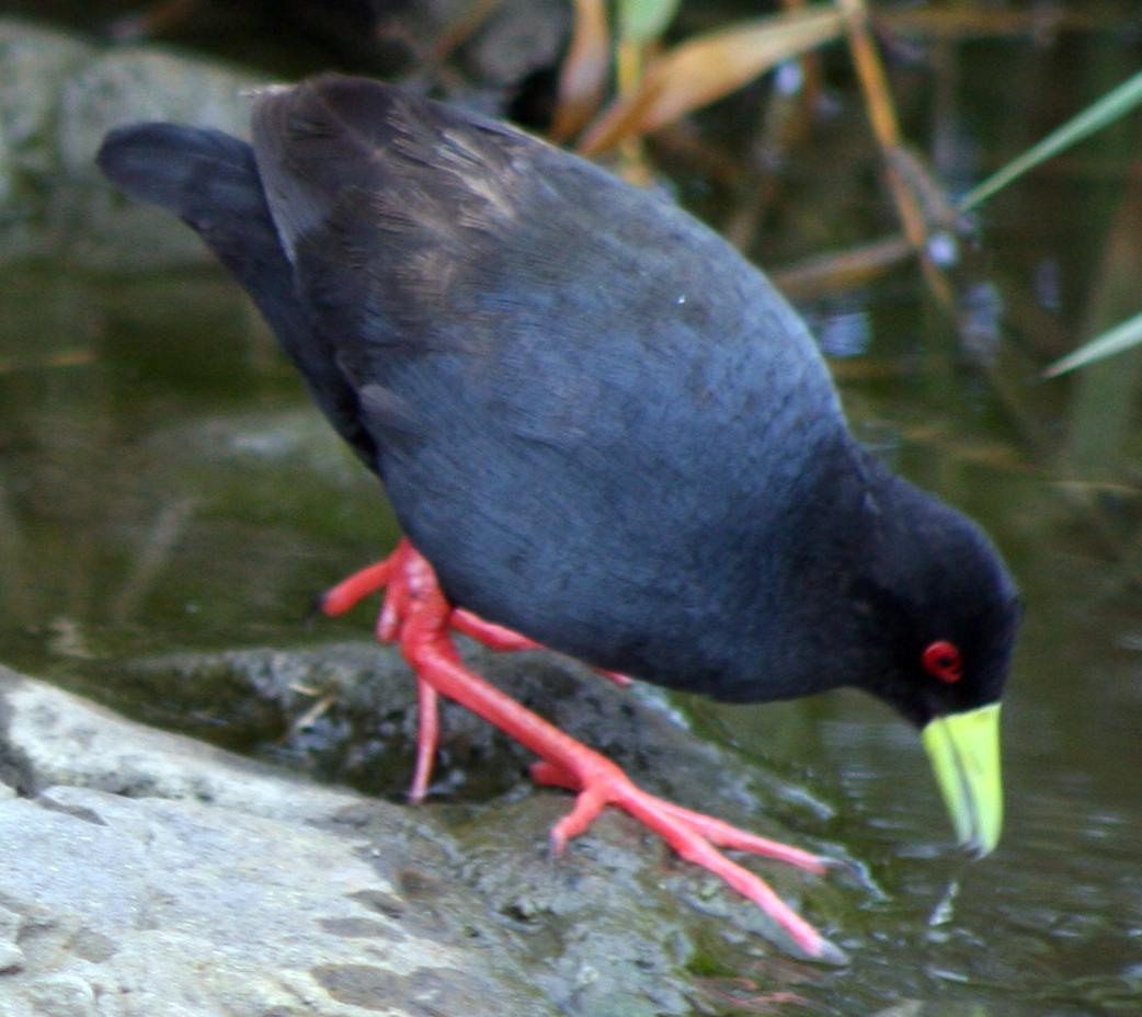 Black crake